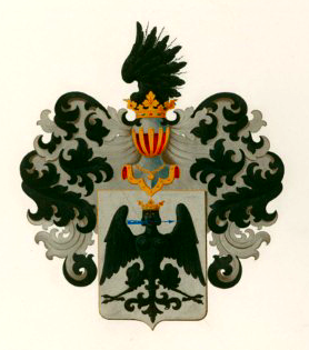 Coat of Arms of Repninsky family